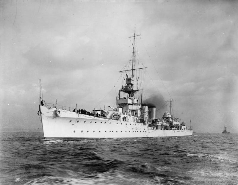 British light cruiser HMS CAIRO.